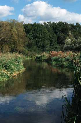 River lambourn as it flows through Rack Marsh in Bagnor, Lambourn